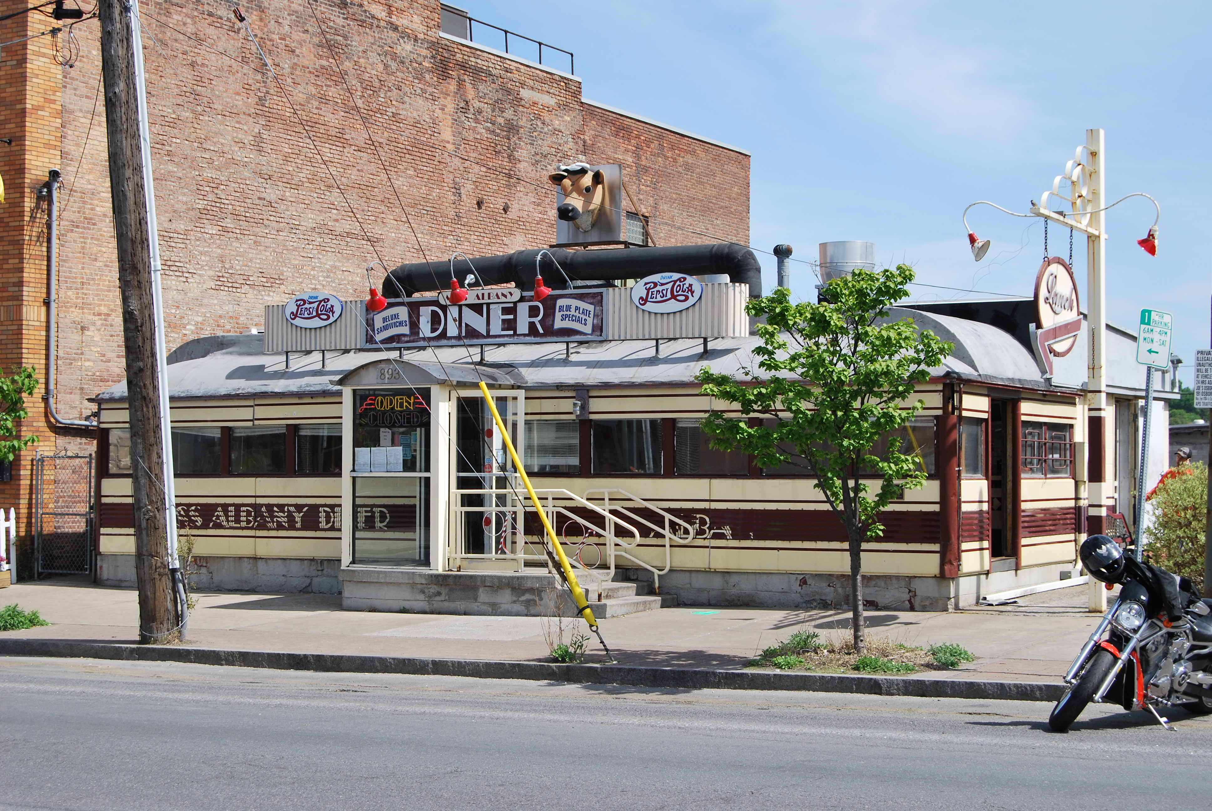 The Miss Albany Diner (Lil's Diner) on Broadway in Albany, New York, United States, which was added to the National Register of Historic Places in November 6, 2000.